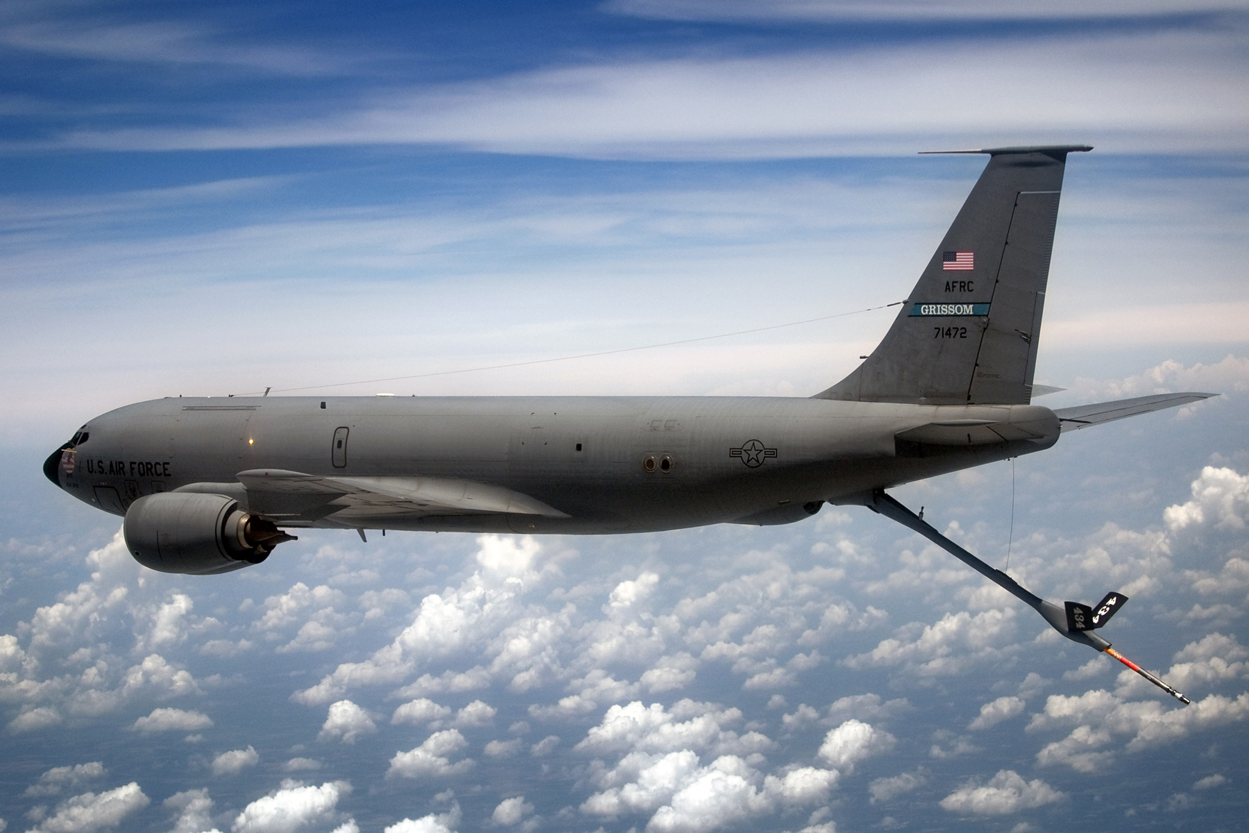 A KC-135R Stratotanker from the 434th Air Refueling Wing at Grissom Air Reserve Base, Ind., flies over Ohio shortly after refueling a C-17 Globemaster III from the 445th Airlift Wing at Wright-Patterson Air Force Base, Ohio, June 18, 2014. The main mission of the KC-135 is to provide inflight refueling to long-range bomber, fighter and cargo aircraft. (U.S. Air Force photo/Tech. Sgt. Mark R. W. Orders-Woempner)